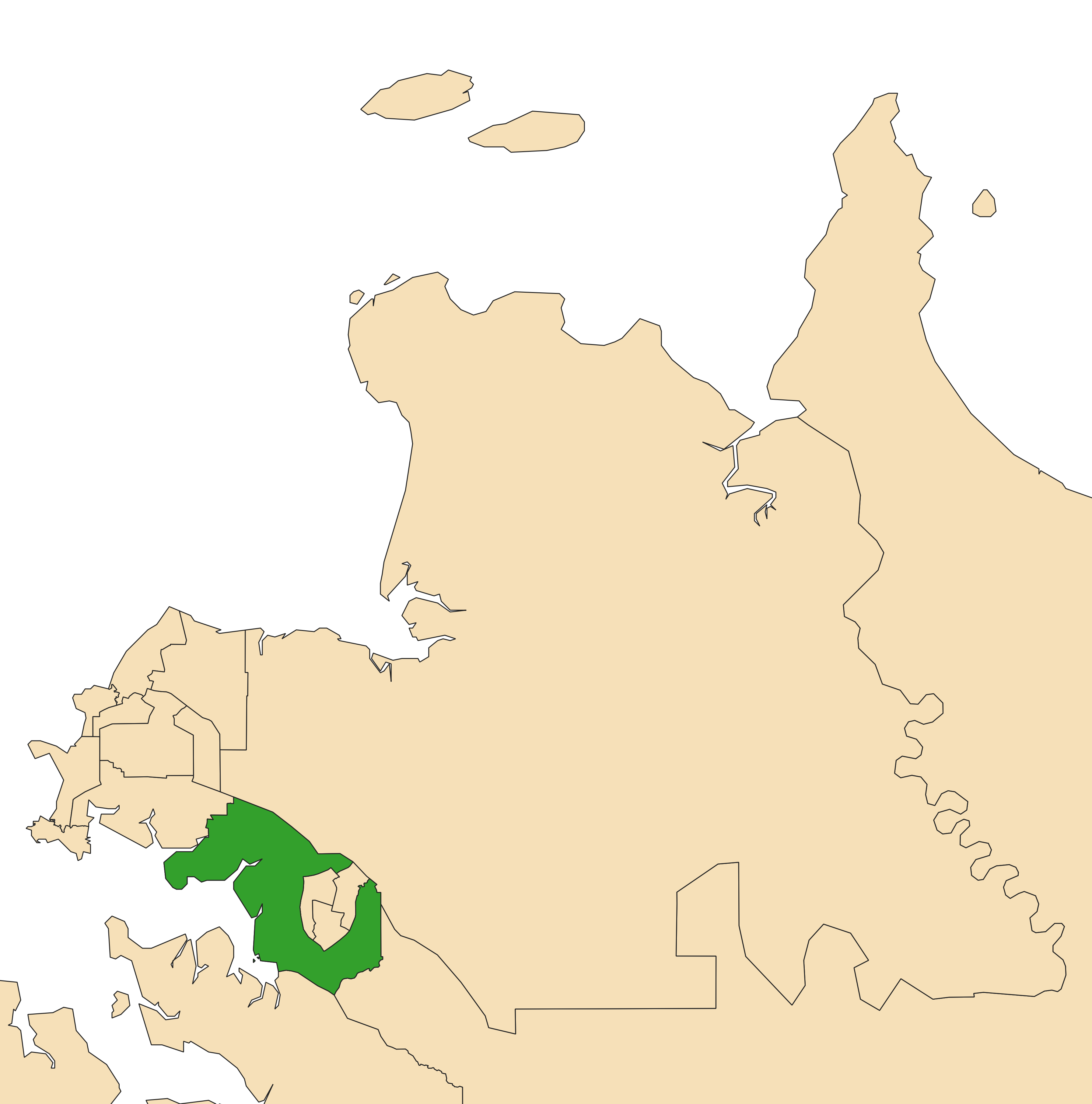 Location of the electoral division of Spillett (dark green) in the Darwin/Palmerston area of the Northern Territory at the 2020 Northern Territory election